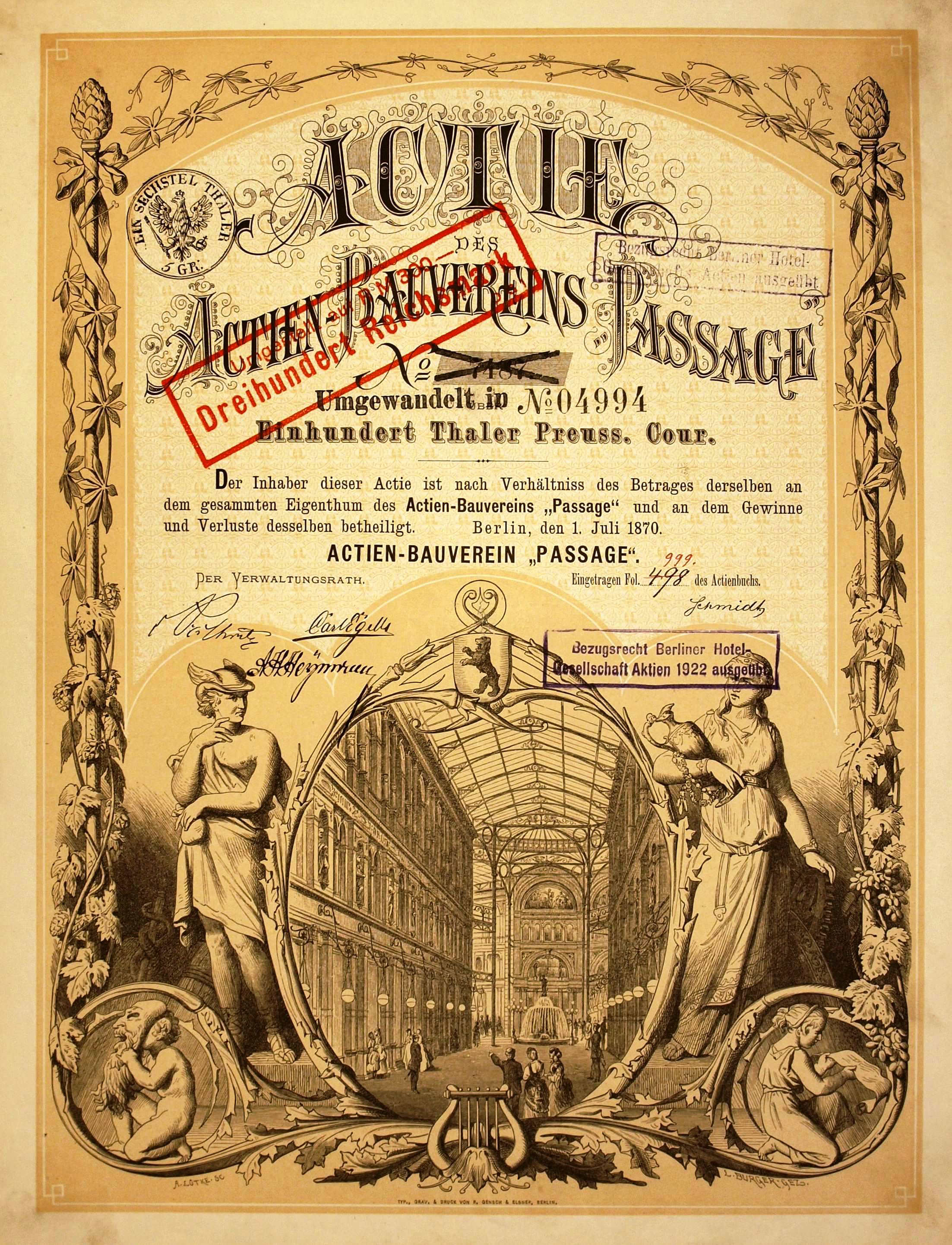 Share of the Actien-Bauverein Passage, issued 1. July 1870